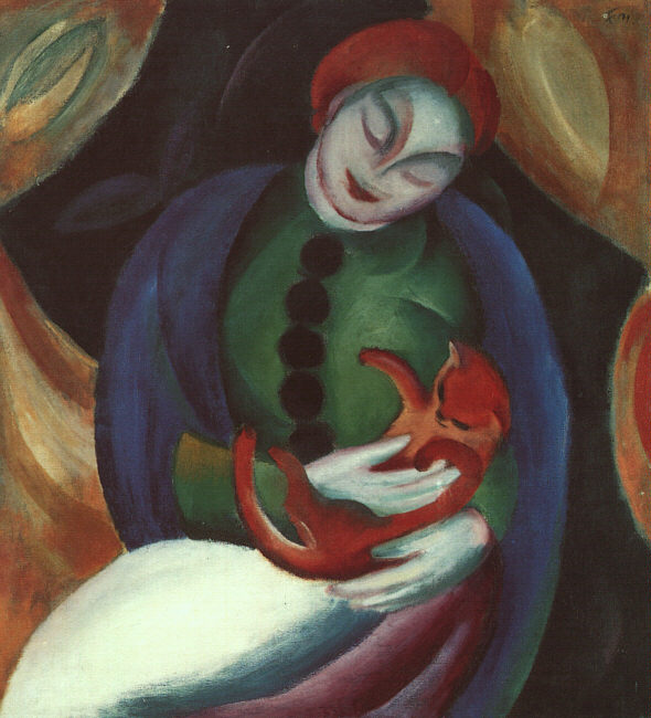 Franz Marc - Girl with Cat II (1912)